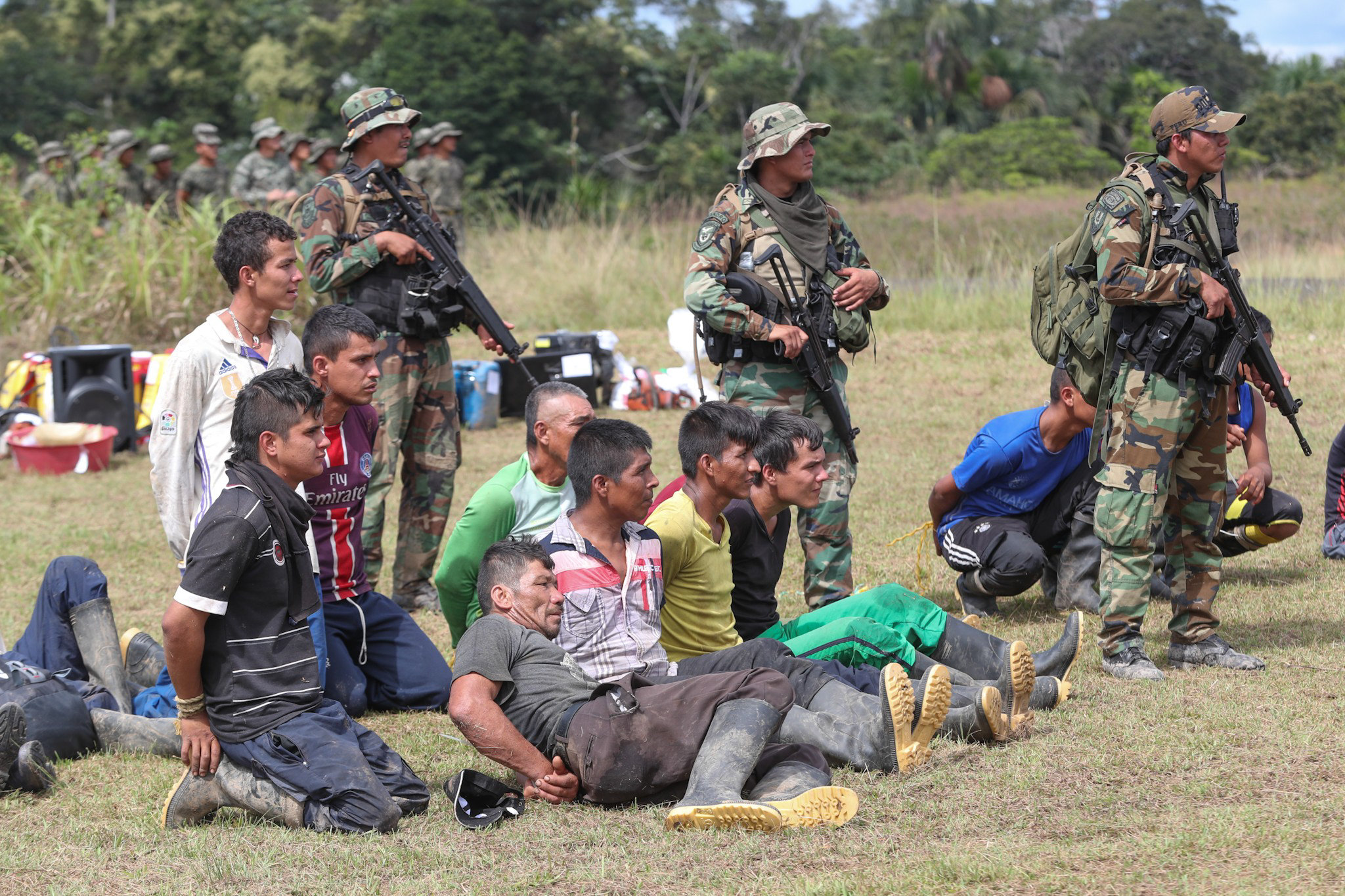 Results of police military action were supervised by President Martín Vizcarra. Defense Ministry reported that more than 370 Armed Forces and PNP personnel participated. With the interference of more than 50 people, including several Colombian citizens, the destruction of four drug laboratories and the seizure of large amounts of chemical inputs, concluded the integrated operation "Armagedón", executed today by the Armed Forces and the National Police in the tripartite border with Colombia and Ecuador, in the province of Putumayo, Loreto region.